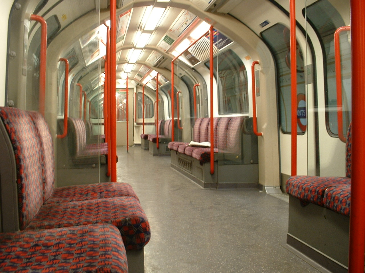 Interior of 1992 stock used on the London Underground Central line. Sunil060902, 12th April 2003.